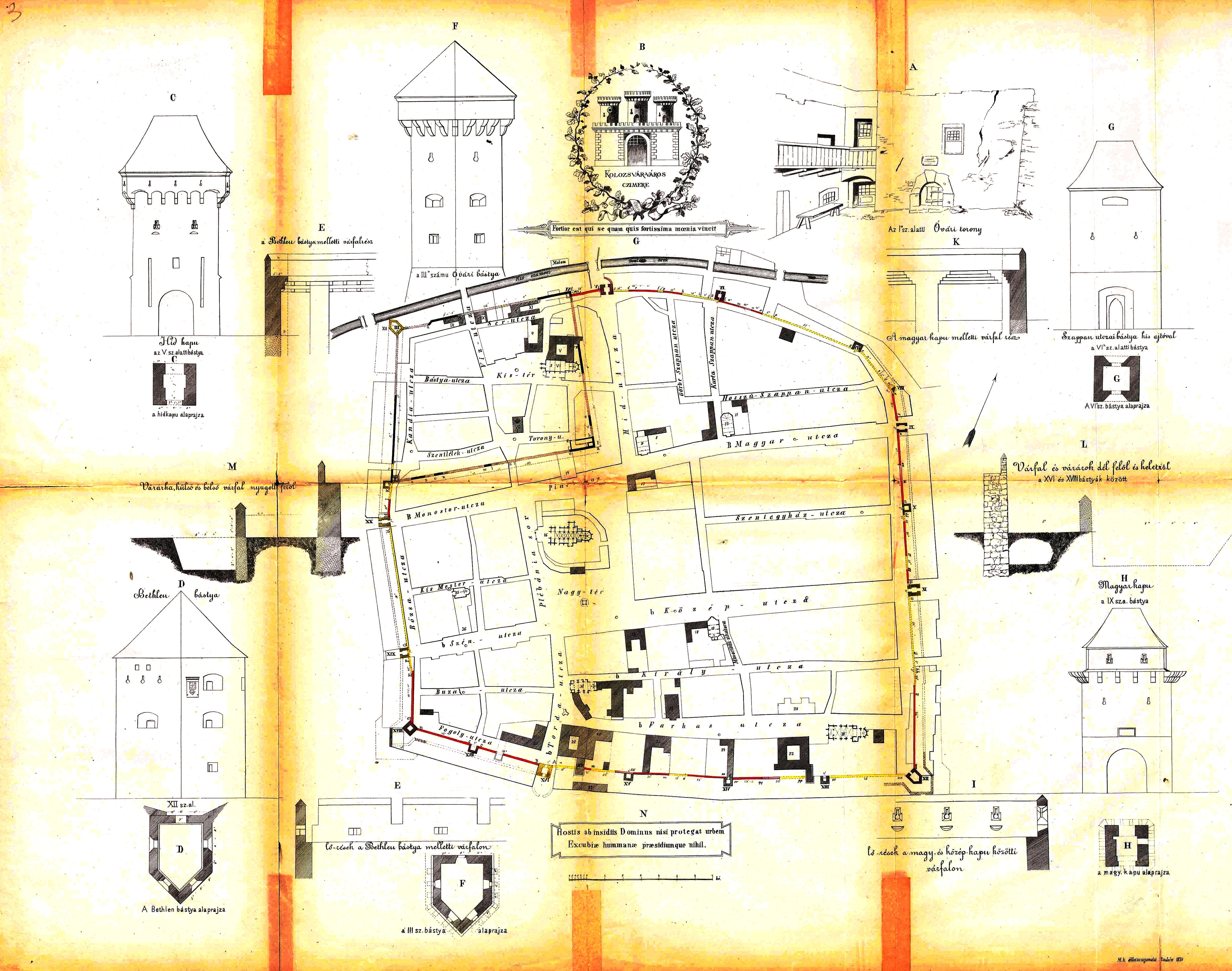 The walls and bastions of Cluj-Napoca (Kolozsvár)